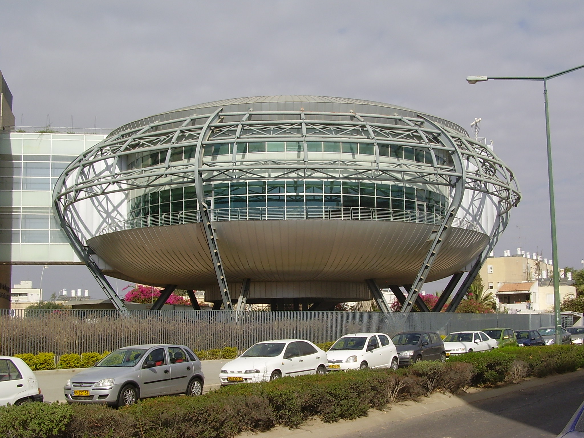 shamoon college of engeneering (sce) in be\'er sheva